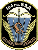 Sleeve insignia of the 104th Guards Airborne Division, depicting a scorpion and bow and arrow over a parachute with the guards ribbon below.